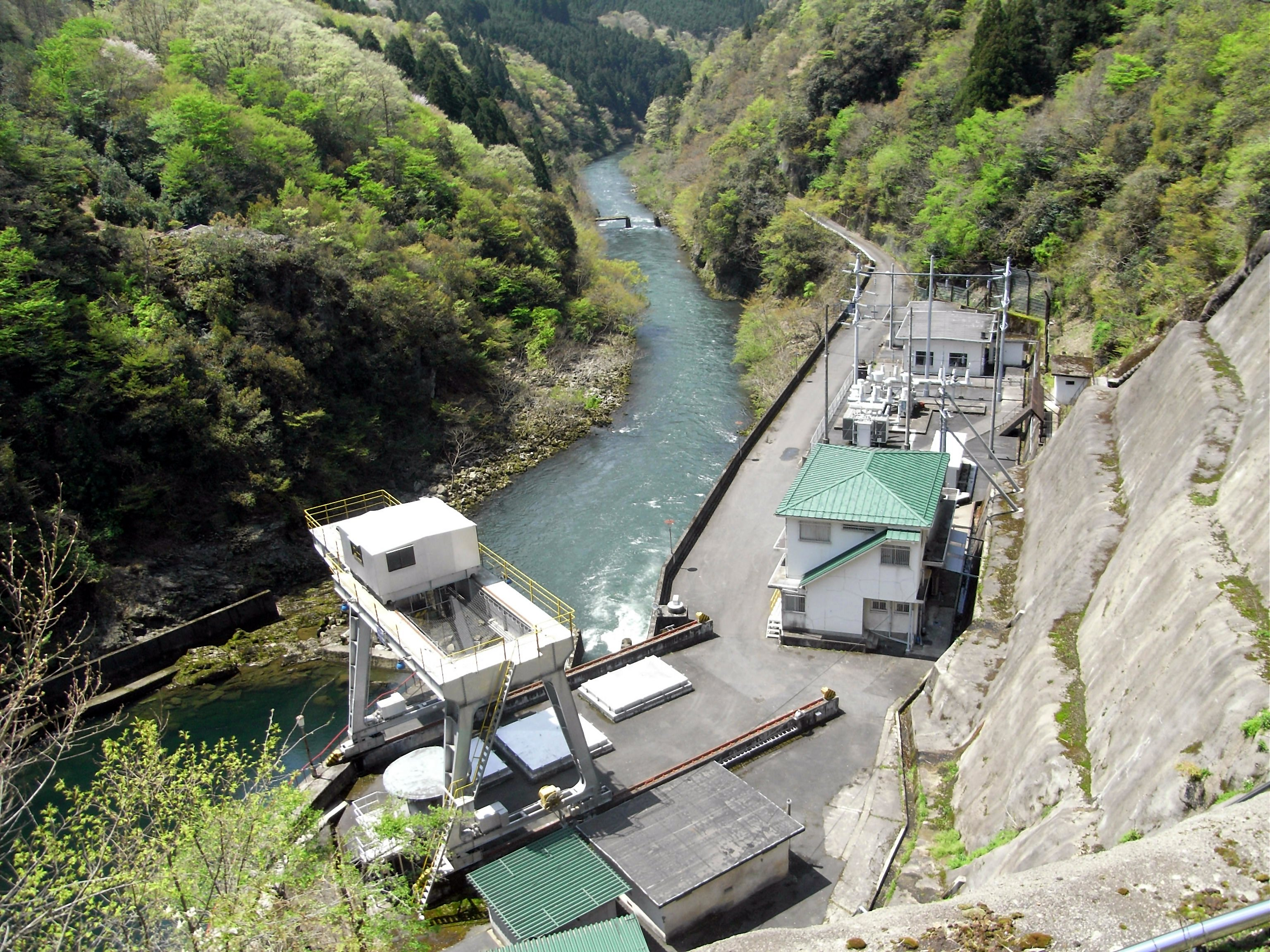 Ohno power station(Yuragawa river/Kyoto pref./Japan)